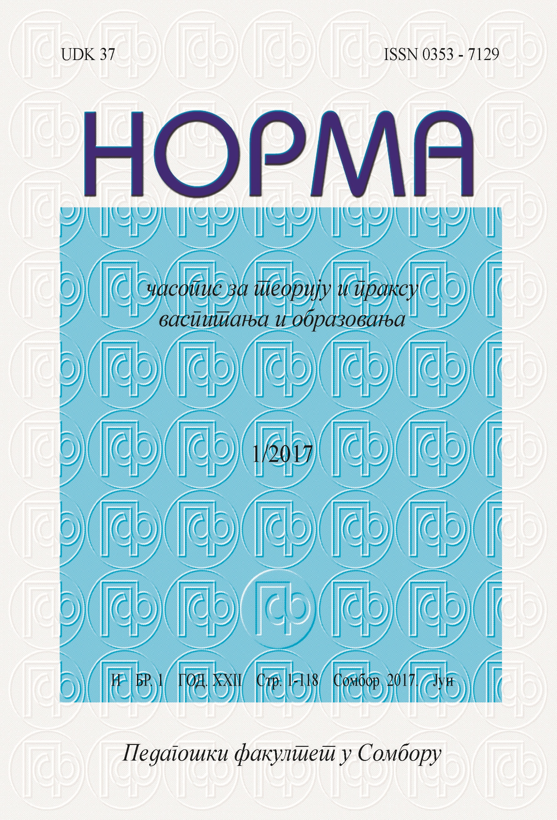 Cover of scientific journal Norma, number 1 from 2017, Faculty of Education in Sombor, University of Novi Sad, Serbia Srpski (latinica): Časopis Norma, broj 1 iz 2017, Pedagoški fakultet u Somboru, Univerzitet u Novom Sadu, Srbija